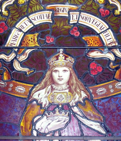 Stained glass window depicting Margaret, Maid of Norway who was briefly Queen regnant of Scotland.